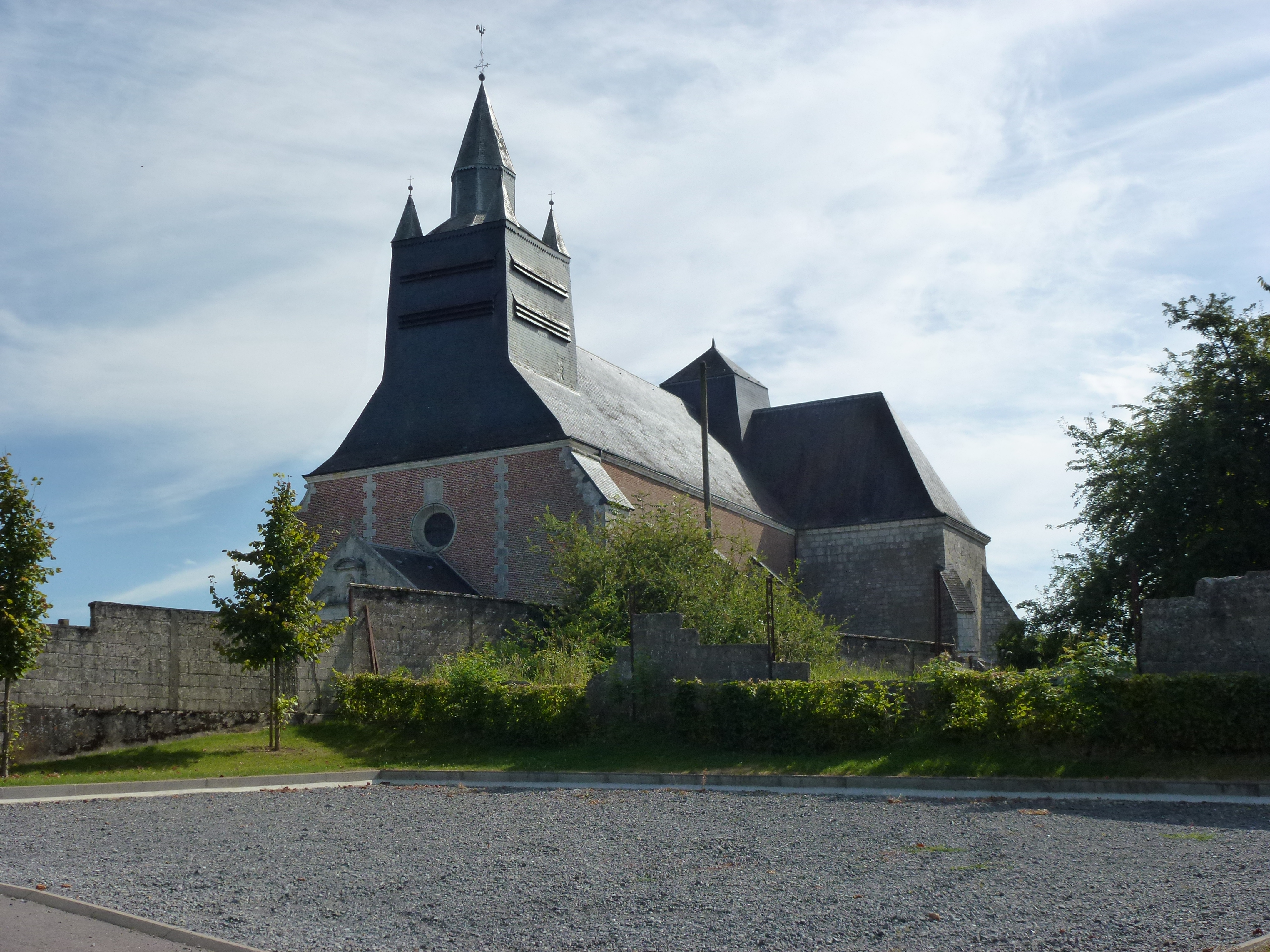 Rumigny (Ardennes) église, extérieur